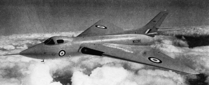 A British Avro 707A experimental aircraft (s/n WD280) in flight. Five 707s were built to test the tailess thick delta wing configuration.